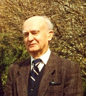 Photo take of Stanislaw Bobr-Tylingo at Saint Mary's University.